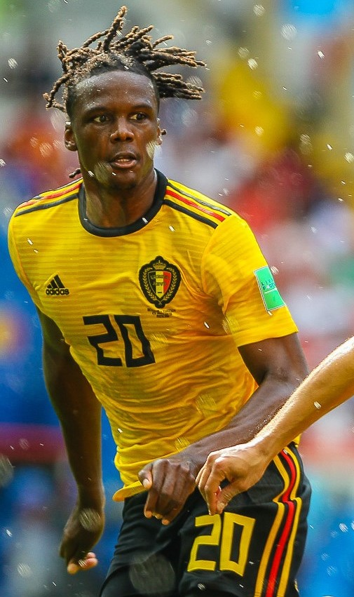 Dedryck Boyata, Naïm Sliti